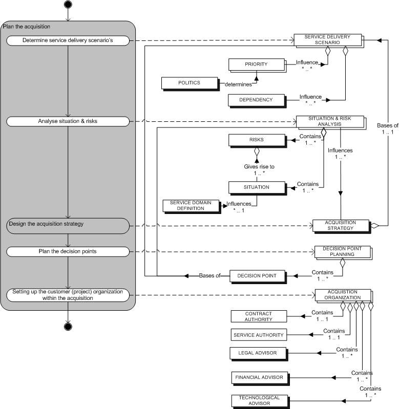 Full process-data diagram for the Acquisition Initiation, created by M.C.A. Luking, April 12th 2006